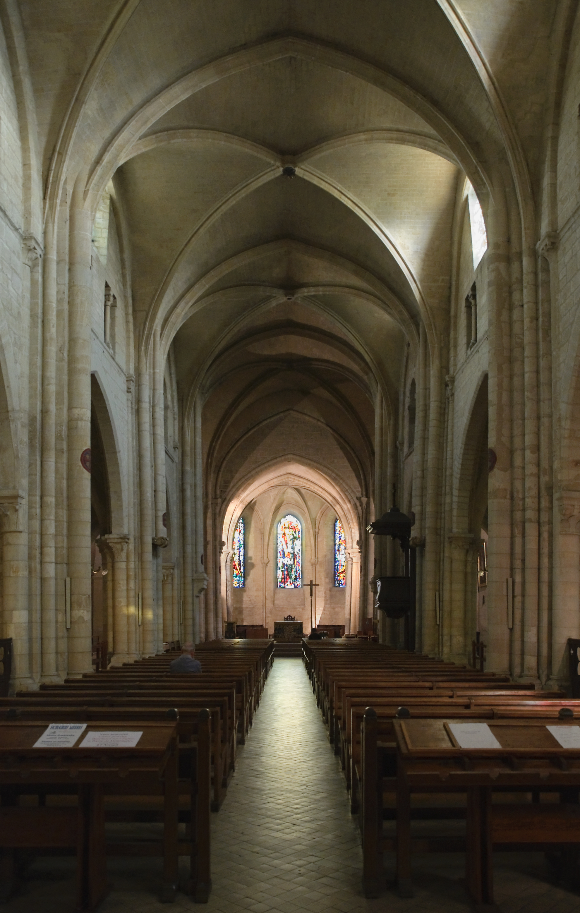 Saint-Pierre de Montmartre church, interior: view of the nave and the choir.